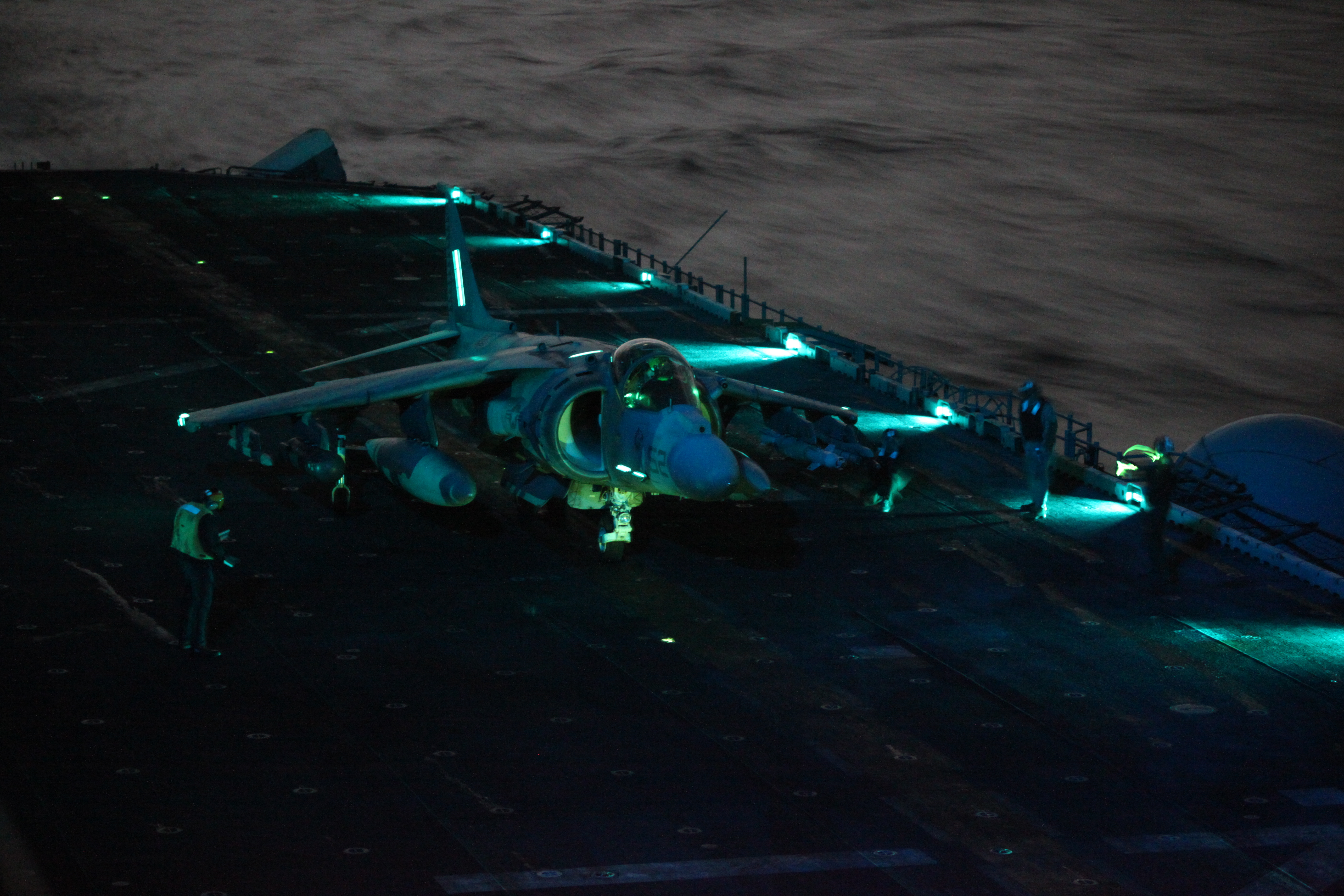 MEDITERRANEAN SEA (March 21, 2011) A Harrier jet aircraft assigned to the 26th Marine Expeditionary Unit (26th MEU) returns to the amphibious assault ship USS Kearsarge (LHD 3) for fuel and ammunition resupply while conducting air strikes supporting Joint Task Force Odyssey Dawn. Joint Task Force Odyssey Dawn is the U.S. Africa Command task force established to provide operational and tactical command and control of U.S. military forces supporting the international response to the unrest in Libya and enforcement of United Nations Security Council Resolution (UNSCR) 1973. (U.S. Marine Corps photo by Lance Cpl. Michael S. Lockett/Released)